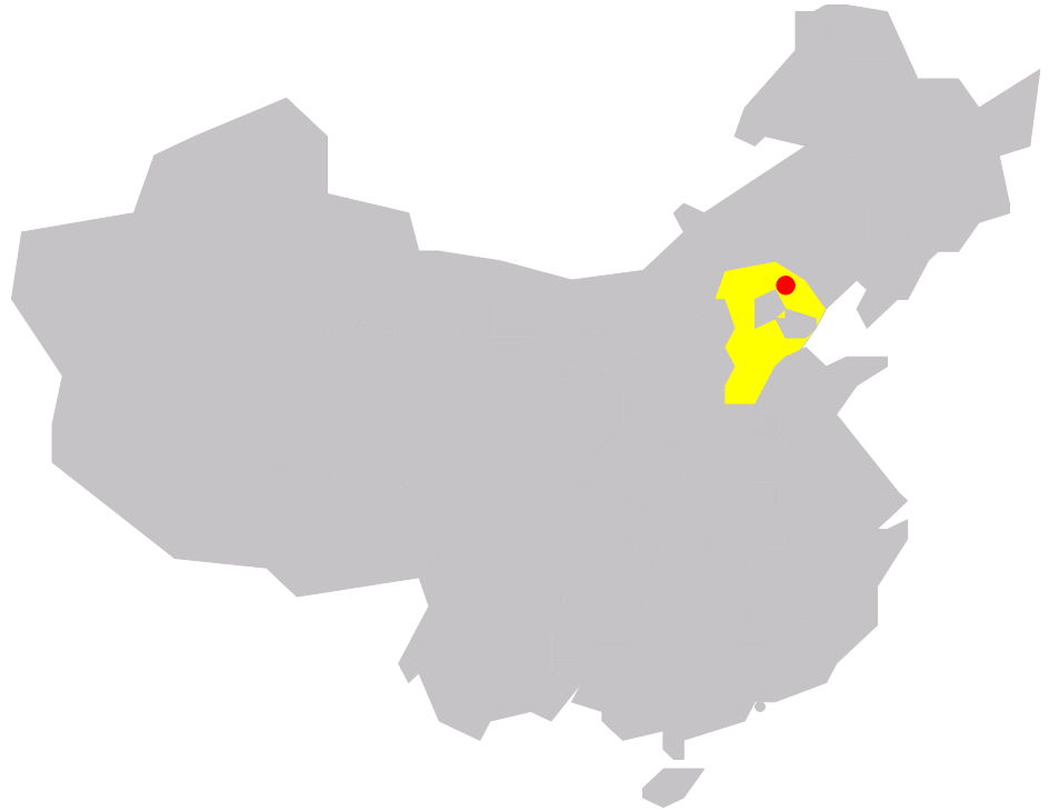 Description: position of Chengde in China Source: own work Date: December 2005 Author: --Immanuel Giel 12:28, 15 December 2005 (UTC) Other versions: none Chengde Chengde Chengde